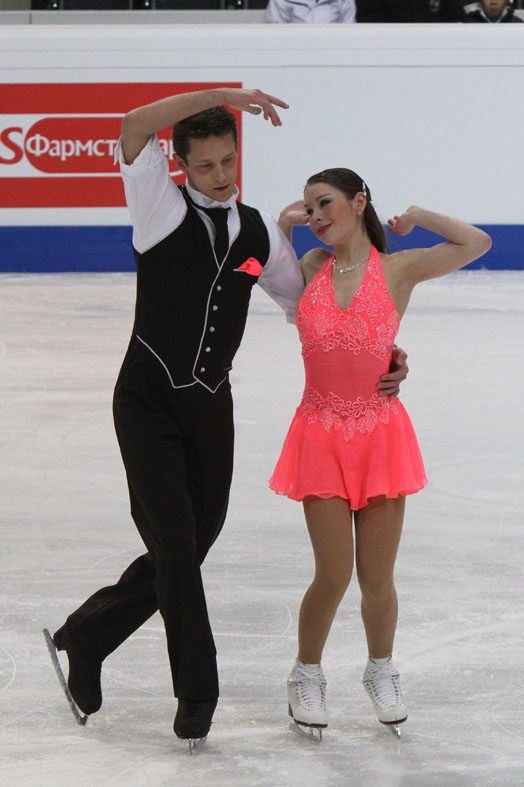 Katharina Gierok / Florian Just at the 2011 European Figure Skating Championships.